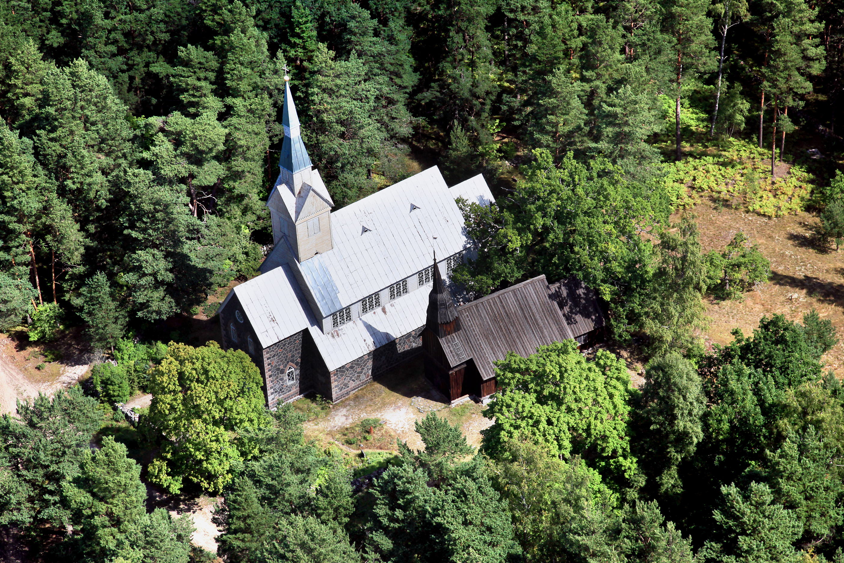 Ruhnu Church and Ruhnu wooden church